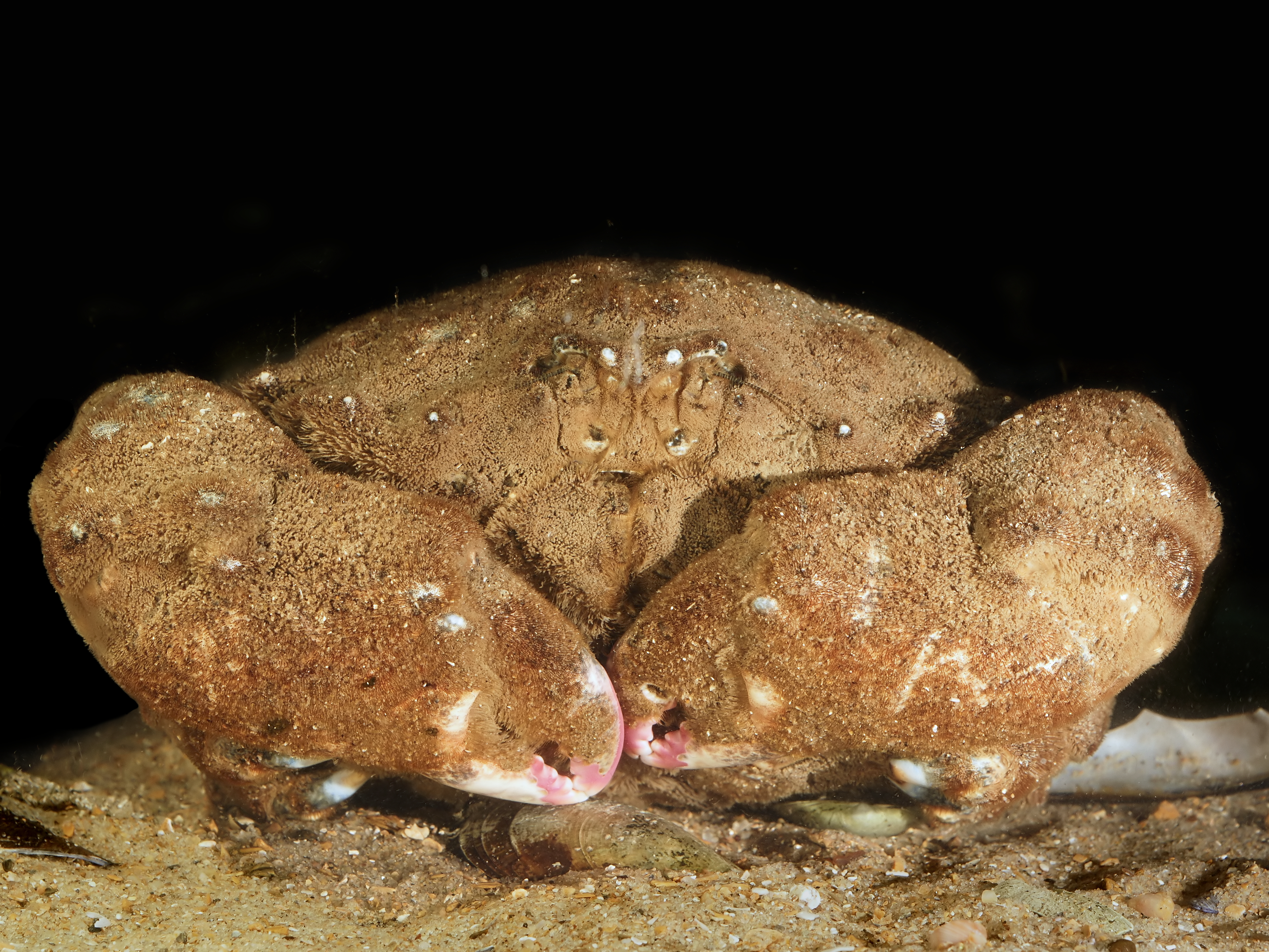 Sponge crab from the Bay of the river Seine.